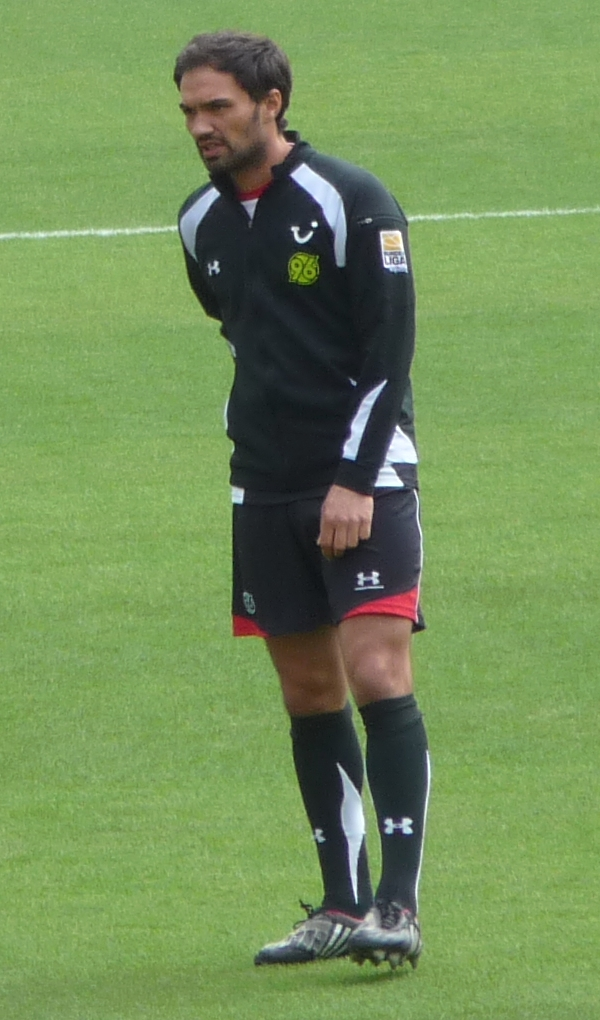 Sofian Chahed